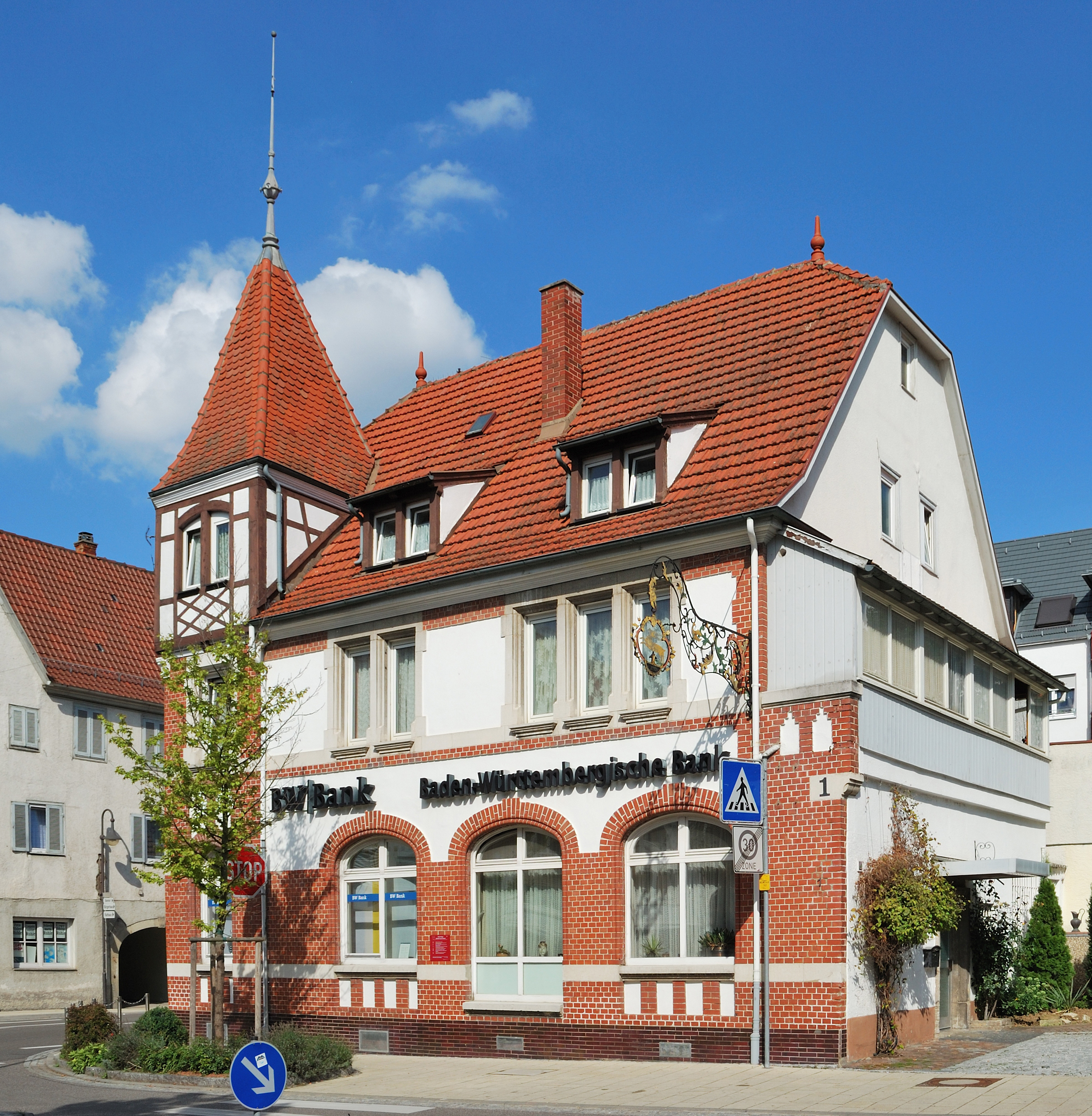 Former guesthouse Zum Hirsch in Schwieberdingen in Southern Germany.